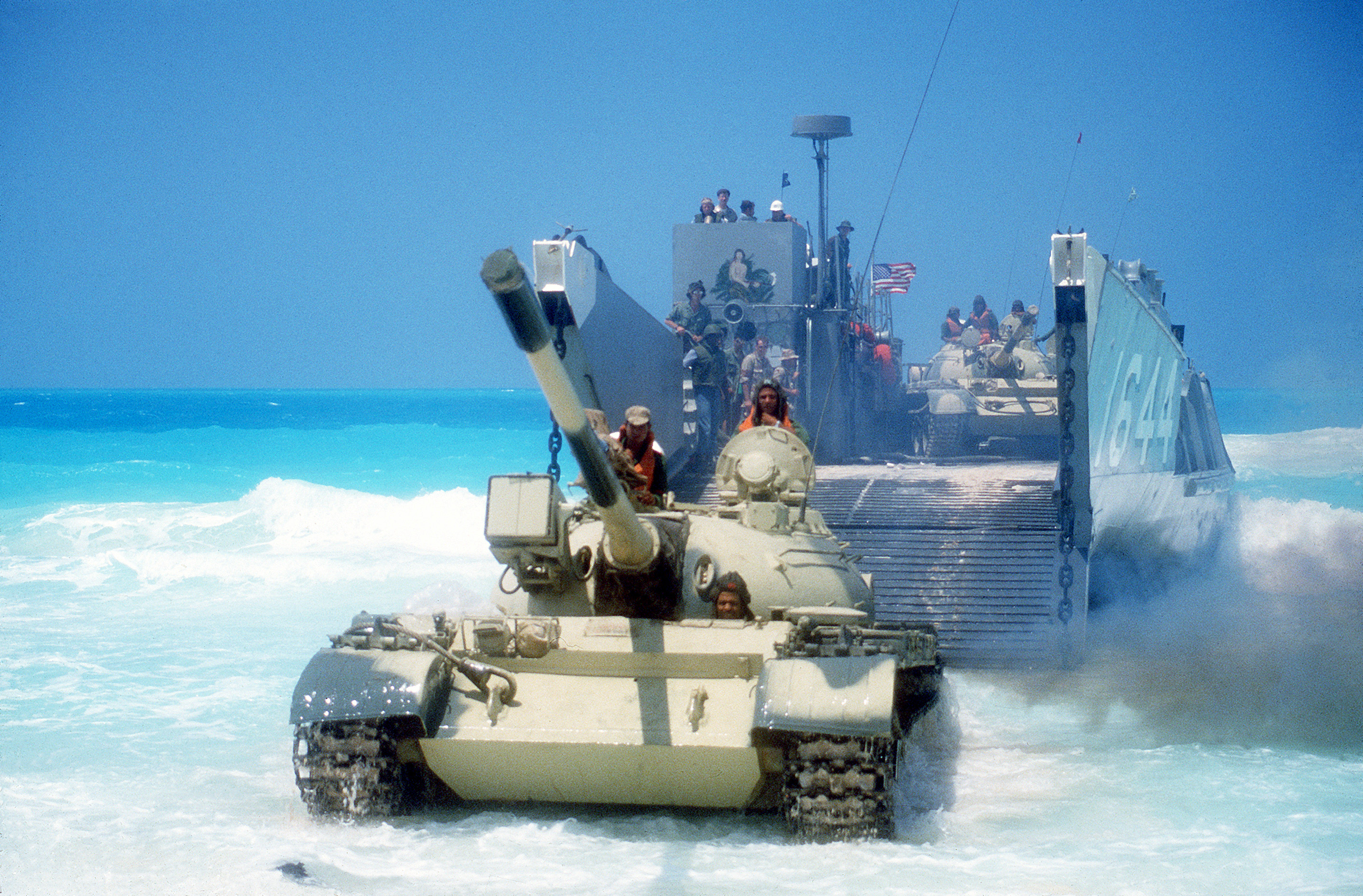 Egyptian modified T-55 after landing from a U.S. landing craft (LCU-1644) during Operation Bright Star. A second unmodified T-55 is visible on the landing craft. Location: Alexandria.